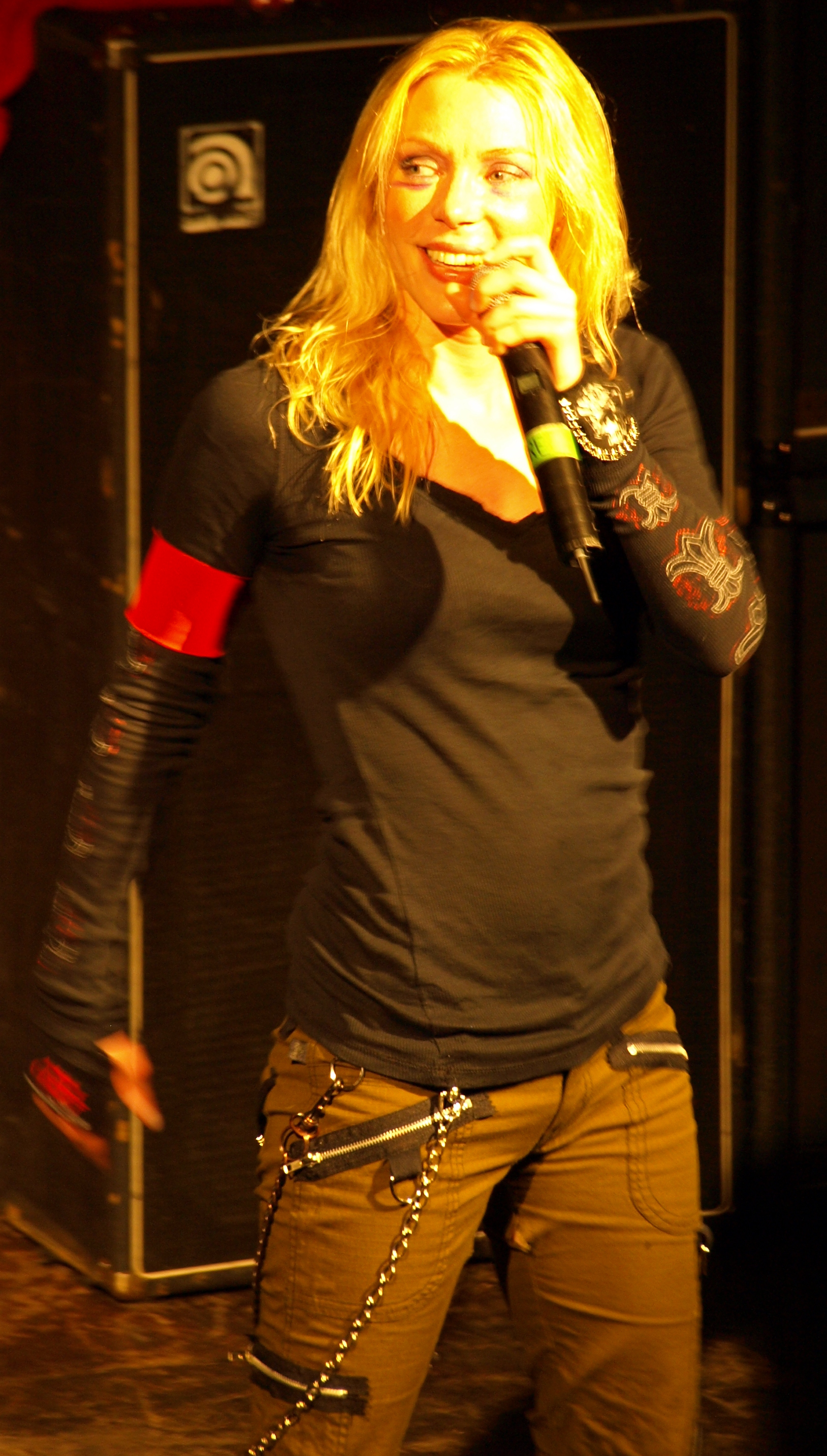 Swedish melodic death metal band Arch Enemy